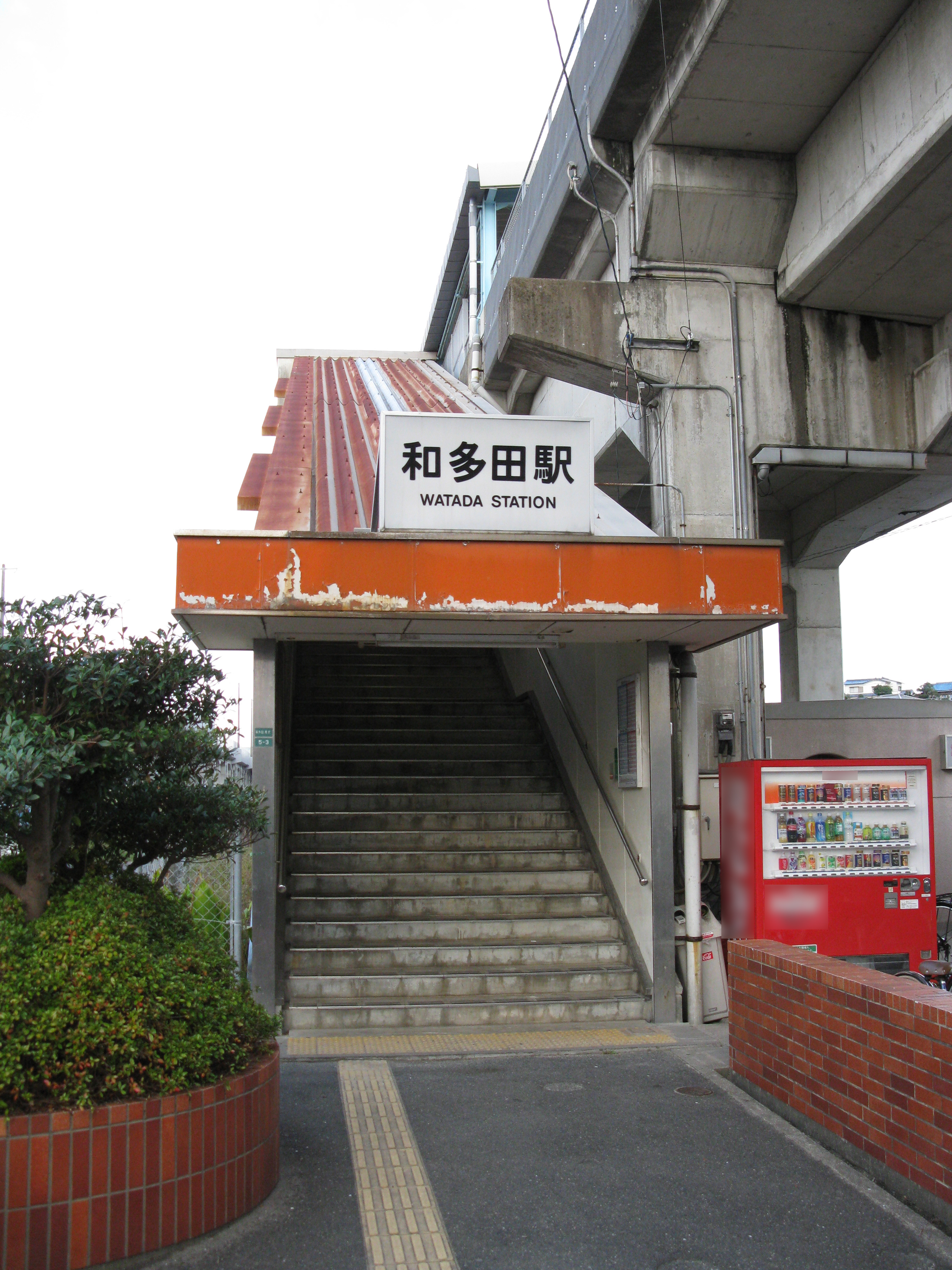 Watada Station entrance (Kyushu Railway Chikuhi Line)